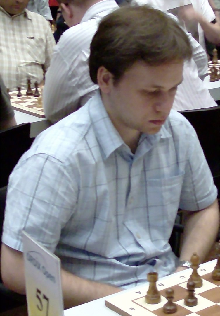 Florian Handke, German chess grandmaster